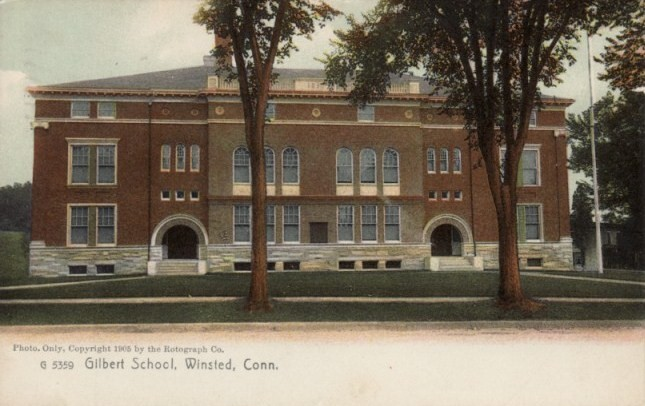 Picture of the Gilbert School in Winsted, Connecticut from a postcard mailed in 1908; undivided-back style